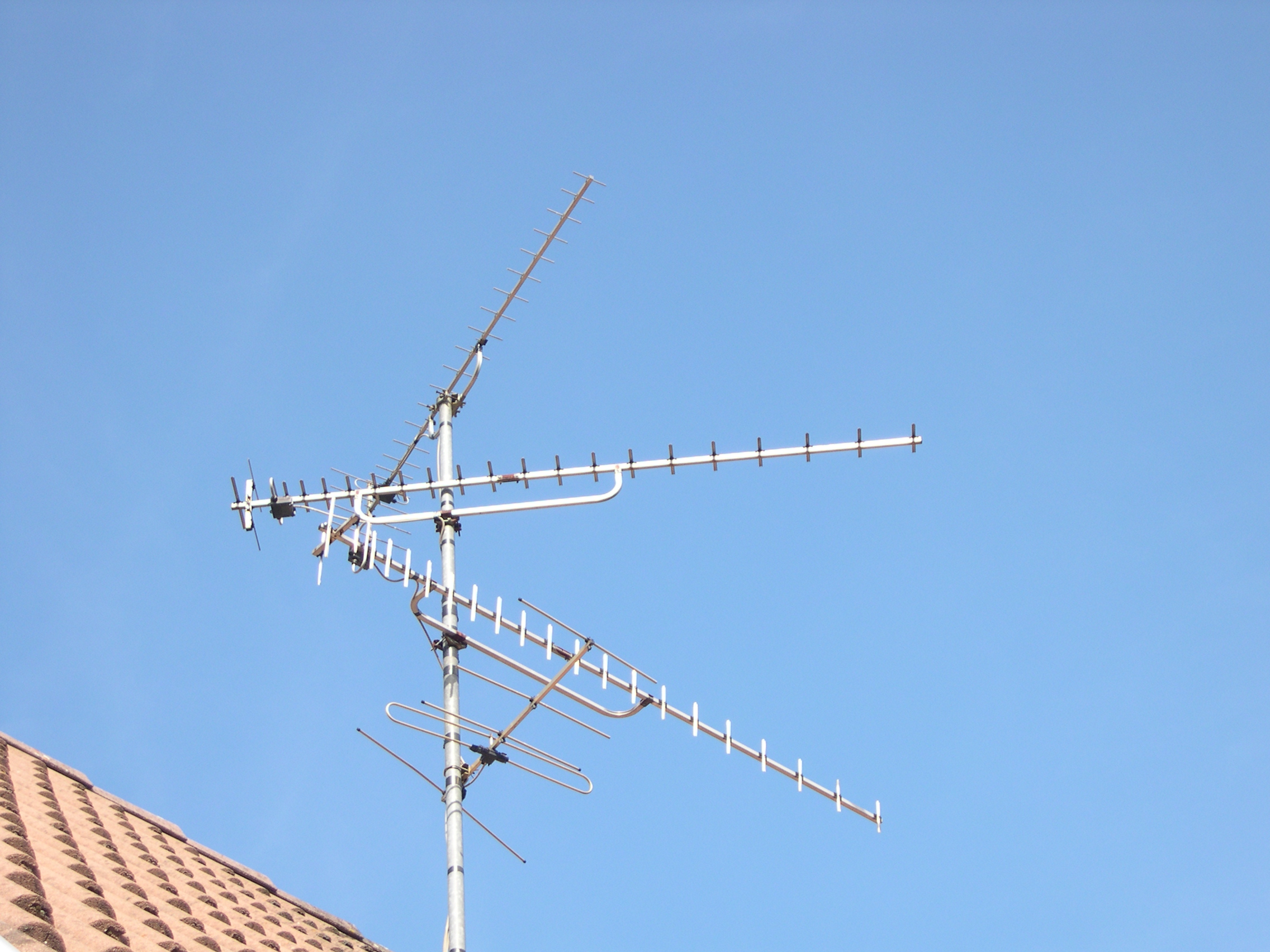 Three UHF Yagi-Uda terrestrial television antennas on a house in France.